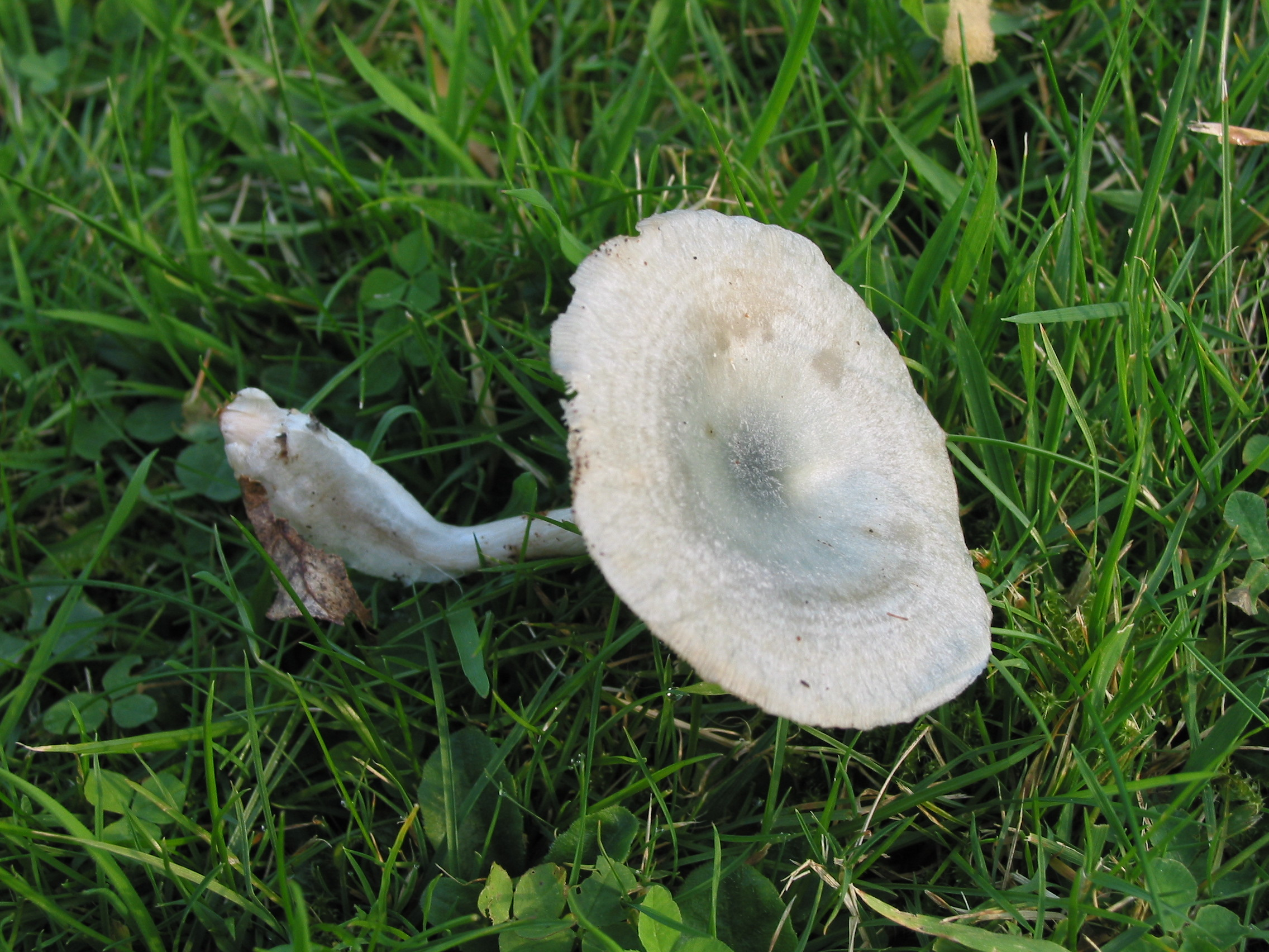 Aniseed funnel